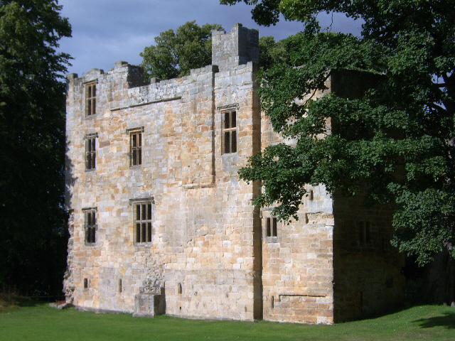 Dilston Castle (grid reference NY97566328) is a ruined 15th century towerhouse situated at Dilston, near Corbridge, Northumberland.